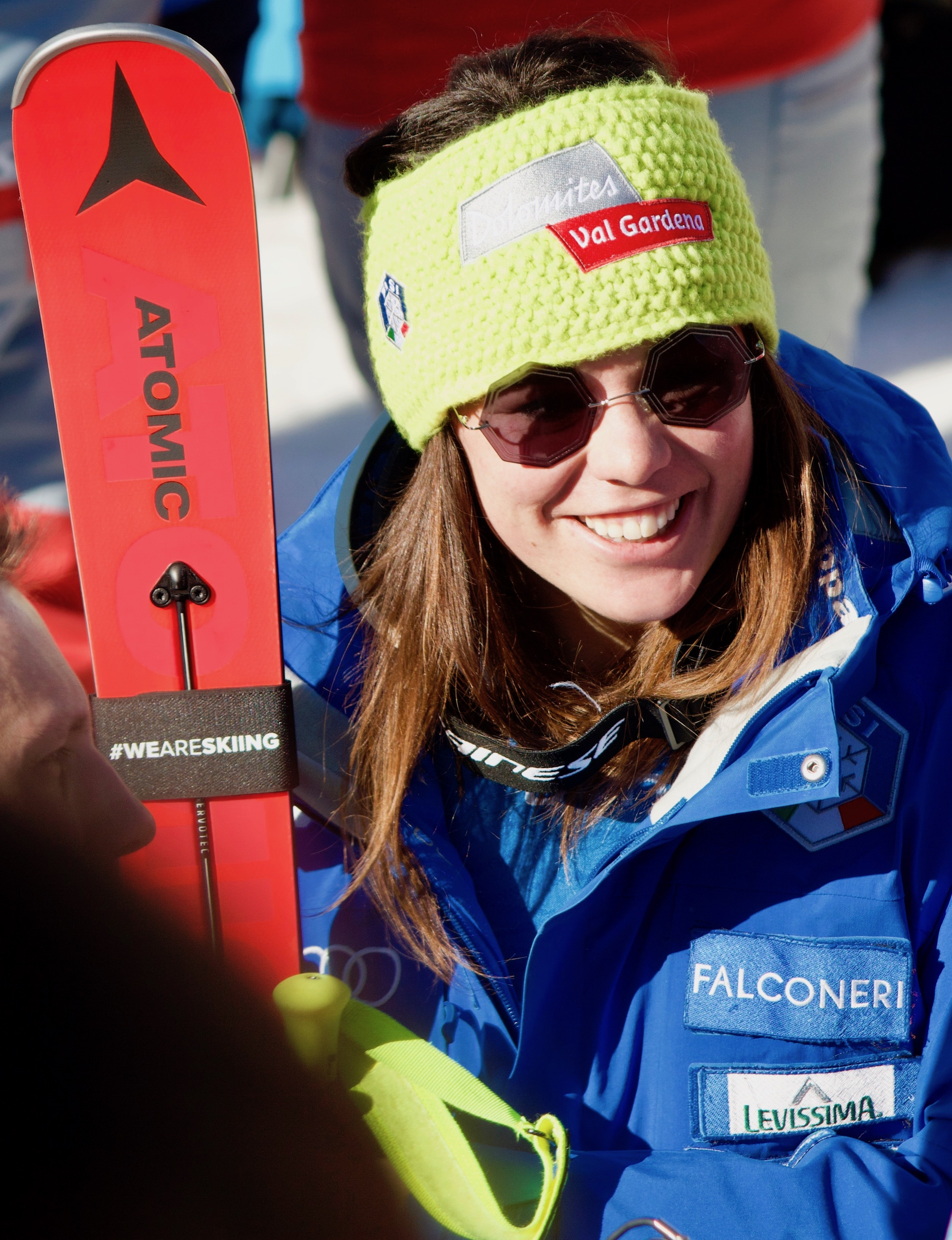 FIS Ski World Cup Crans-Montana, Women's Downhill, Nicol Delago